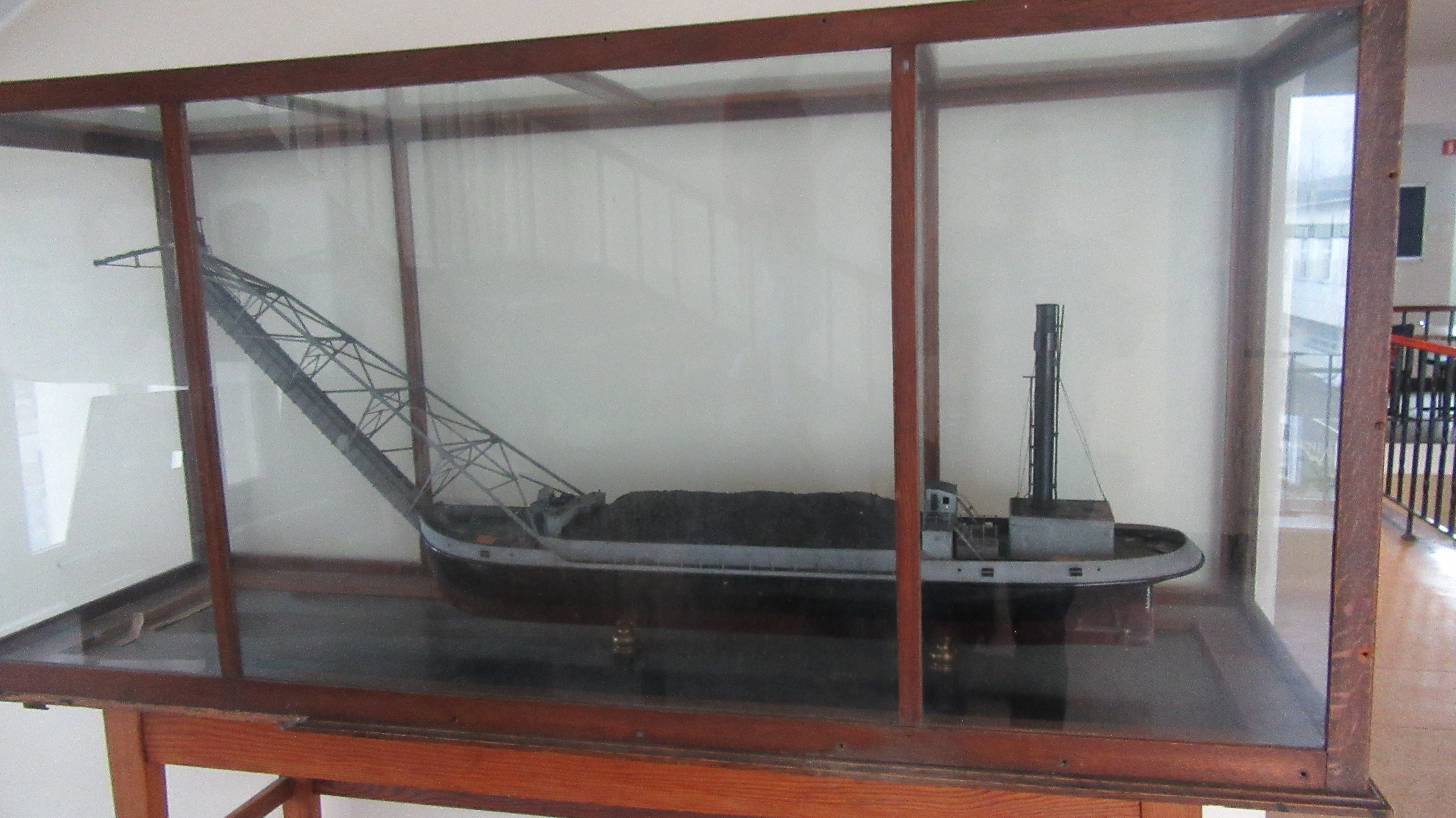 Model of Polish vessel Robur VII, Collier, built in 1937 for supplying coal to vessels on Gdańsk's roadstead.